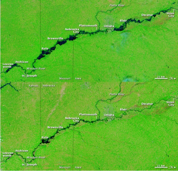 Moderate Resolution Imaging Spectroradiometer (MODIS) on NASA’s Aqua satellite comparing the Missouri River between Sioux City and Leavenworth. The top photo was taken June 30, 2011 during the 2011 Missouri River floods. The bottom photo was taken June 29, 2010 during another large flood (which worst hit the area around Rulo).